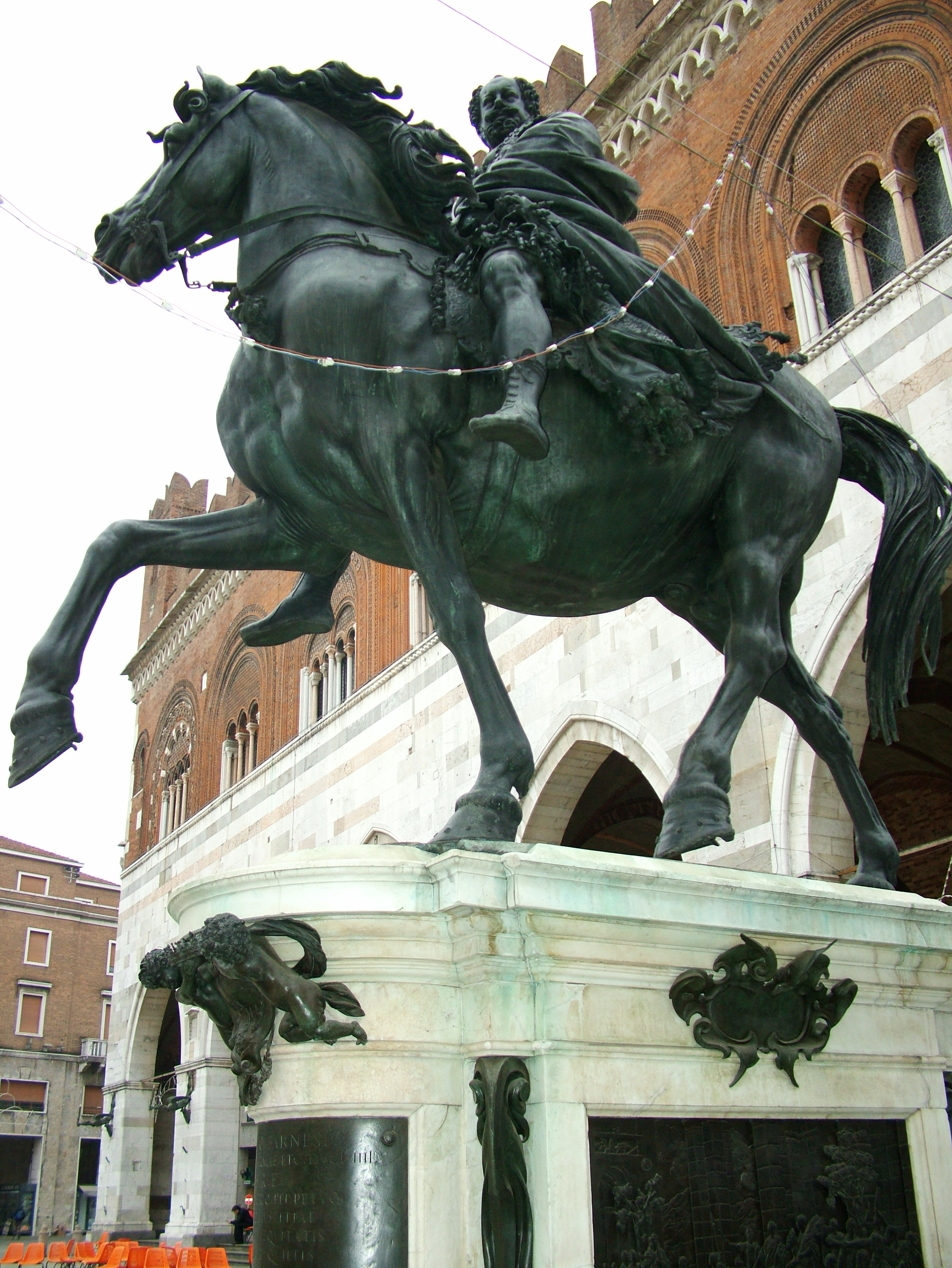 Bronze monument to Ranuccio Farnese by Francesco Mochi in 1620, Piazza Cavalli, Piacenza, Italy.